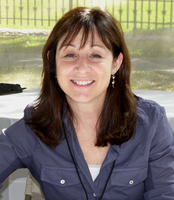 Author Jane Mayer at the 2008 Texas Book Festival in Austin, Texas, United States.